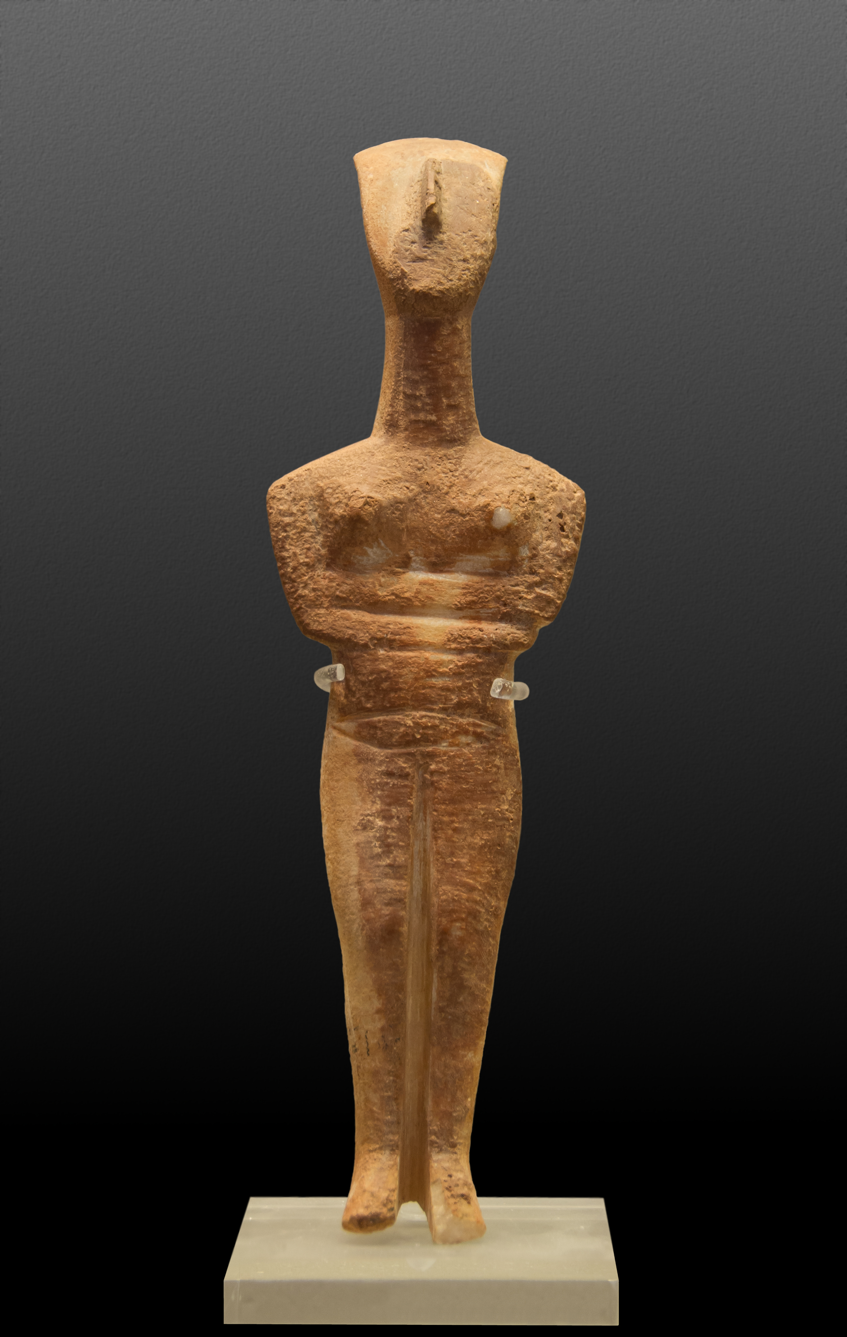 Marble cycladic figurine N°5107, NAMAthens, Greece